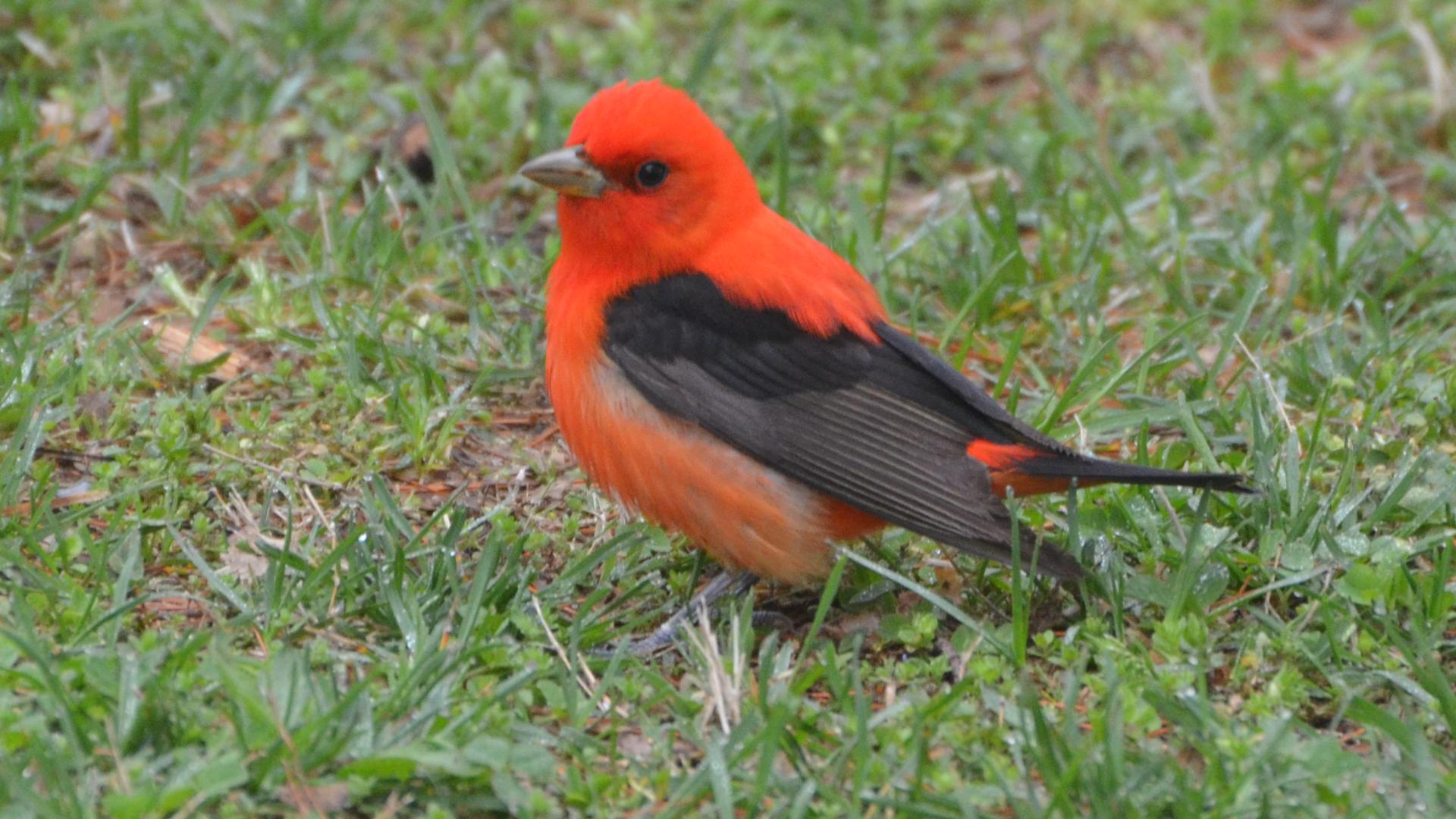 Carondelet Park in St. Louis City, Missouri on 4/17/13